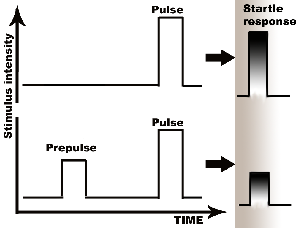 Scheme of Prepulse Inhibition (PPI, Prepulse Inhibition of Startle Reflex Response)